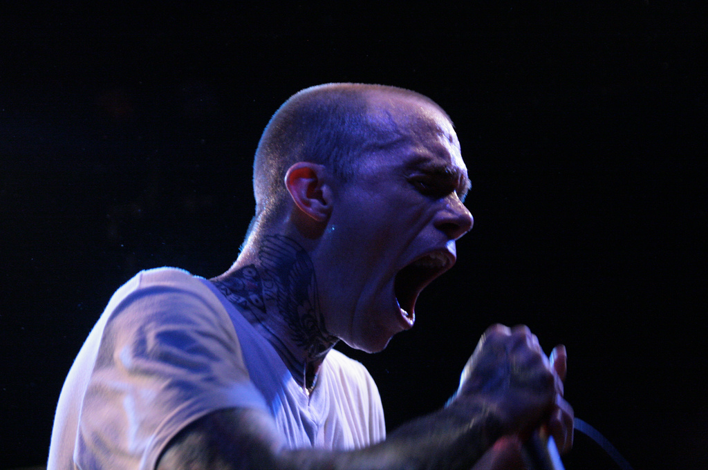 Jacob Bannon, during a concert in 2008 in Paris.